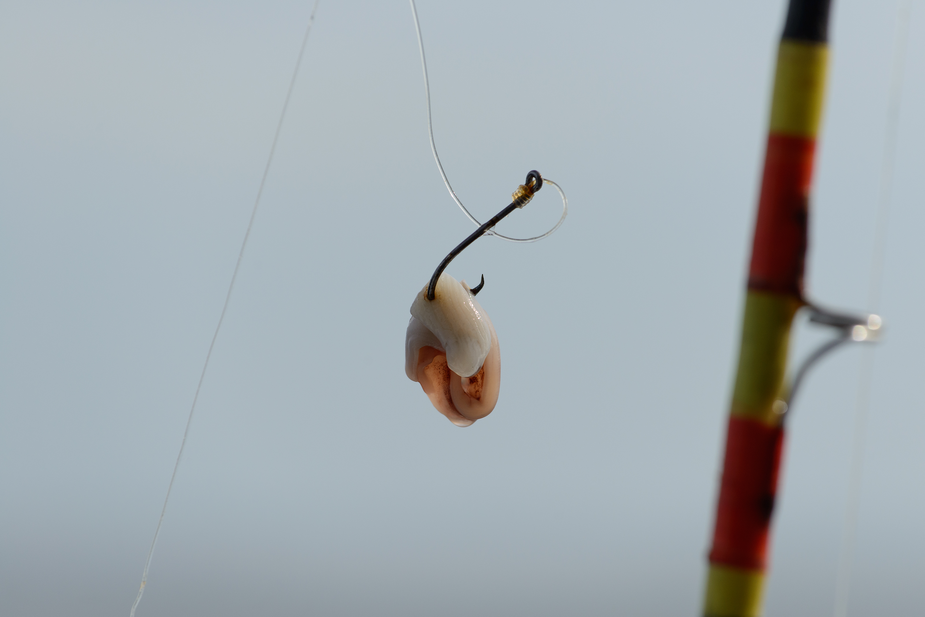 go fish